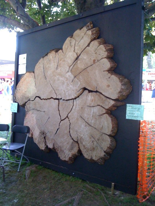 A section of Herbie's trunk.